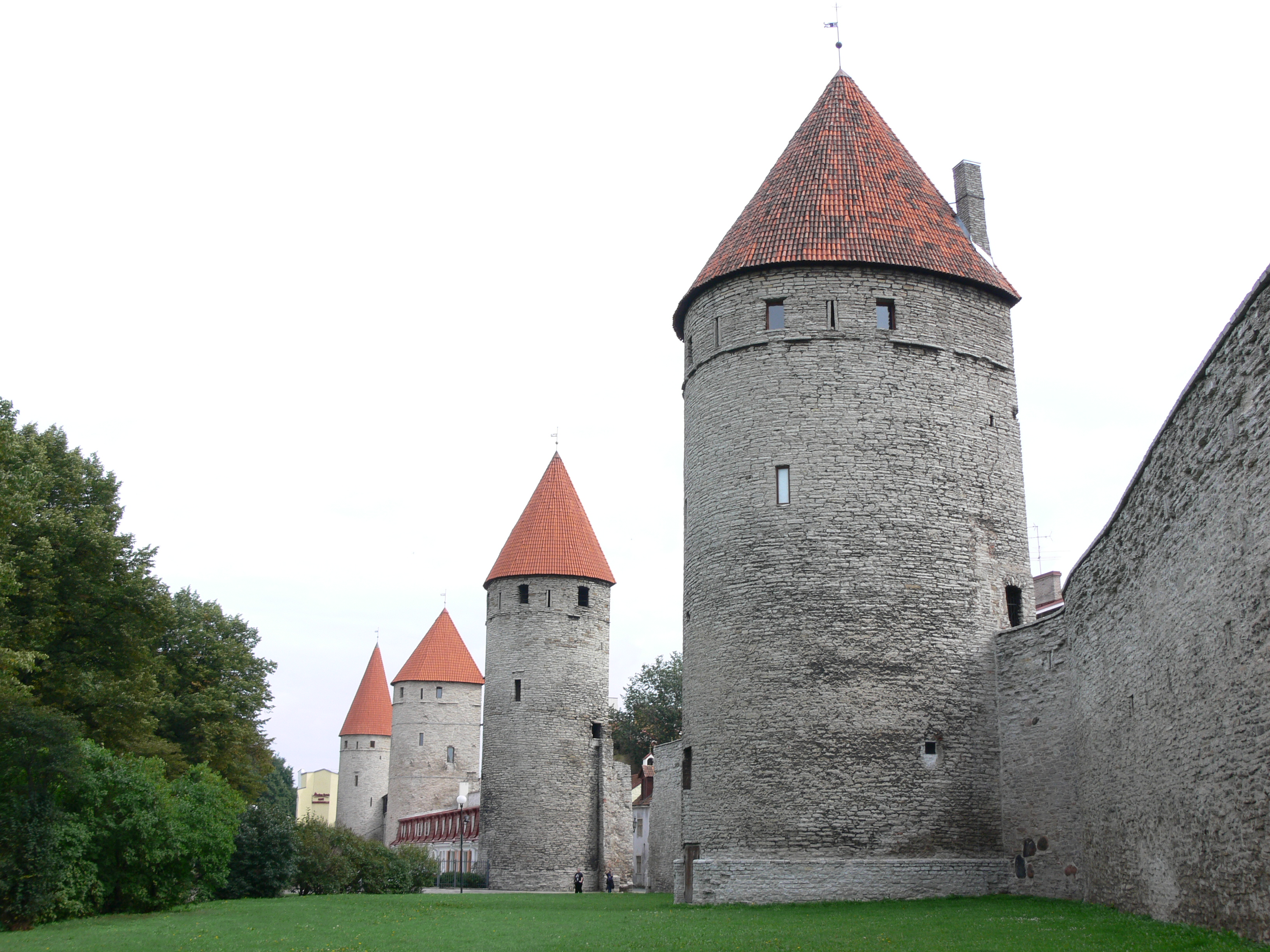 Formidable defensive walls from the 1200s